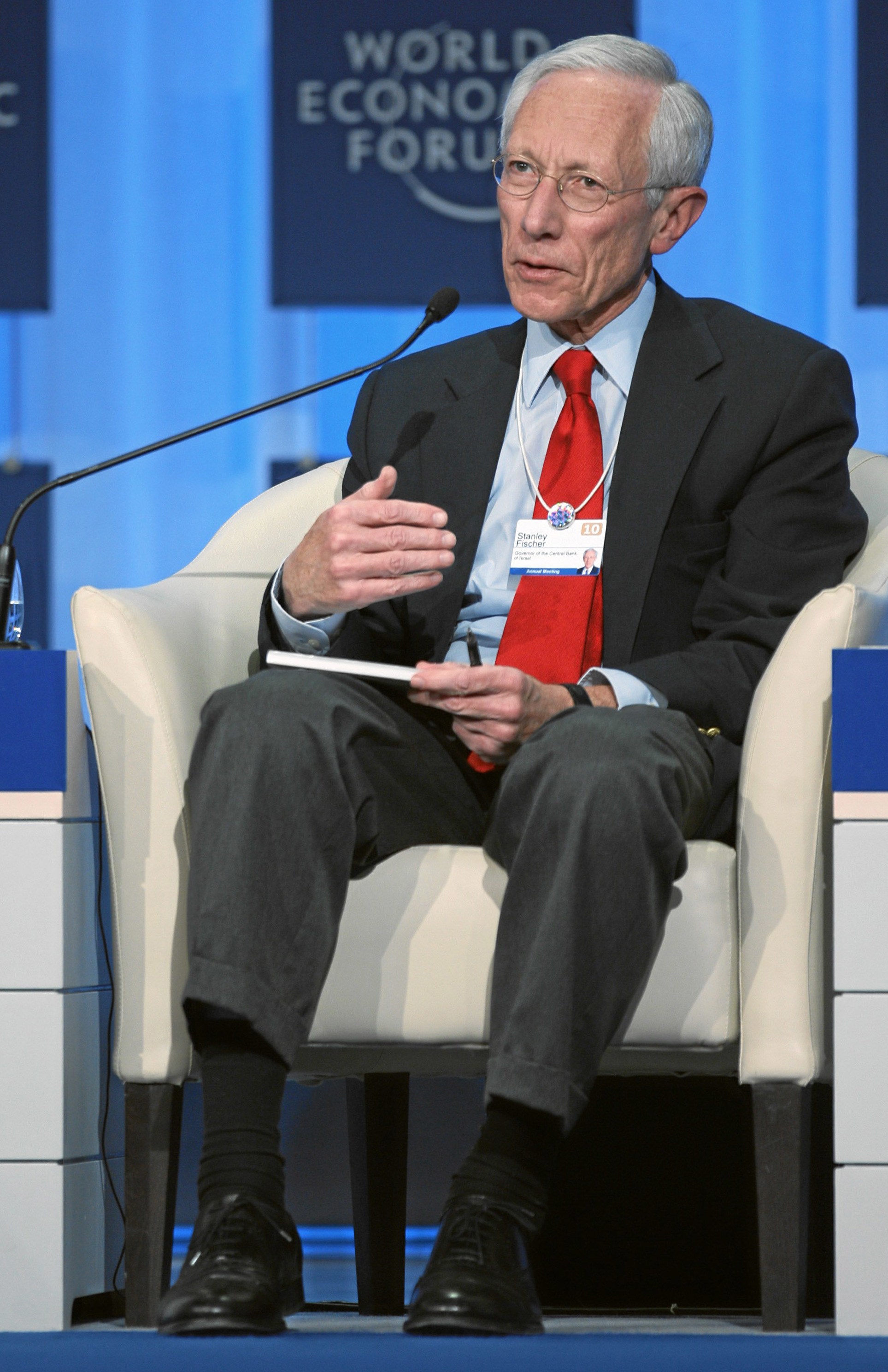 DAVOS/SWITZERLAND, 30JAN10 - Stanley Fischer, Governor of the Central Bank of Israel talks during the session 'Redesigning Financial Regulation' of the Annual Meeting 2010 of the World Economic Forum in Davos, Switzerland, January 30, 2010. Copyright by World Economic Forum. by Sebastian Derungs.